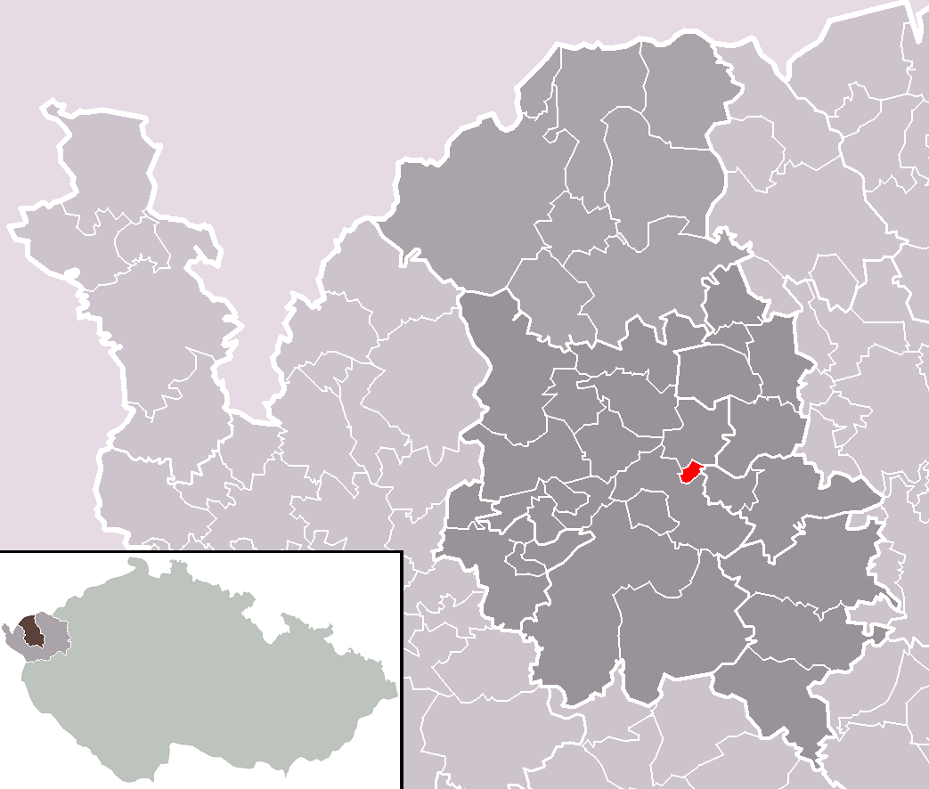 Location of Těšovice municipality within Sokolov District and administrative area of Sokolov as a Municipality with Extended Competence.